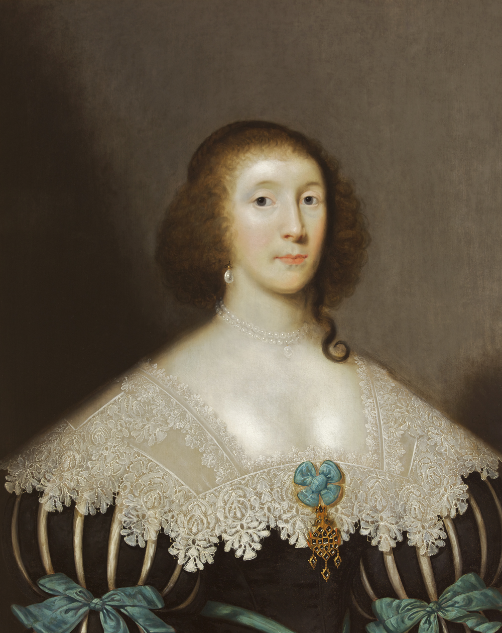 Portraits of Letitia Moryson